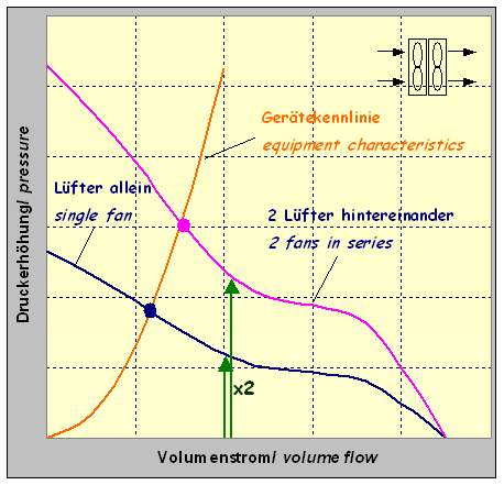 The serial fan arrangement leads to an increase of pressure. Example: Serial arrangement of two identical axial fans. The fan characteristics of the 2-fan-combination was calculated from the single fan characteristics doubling the pressure.